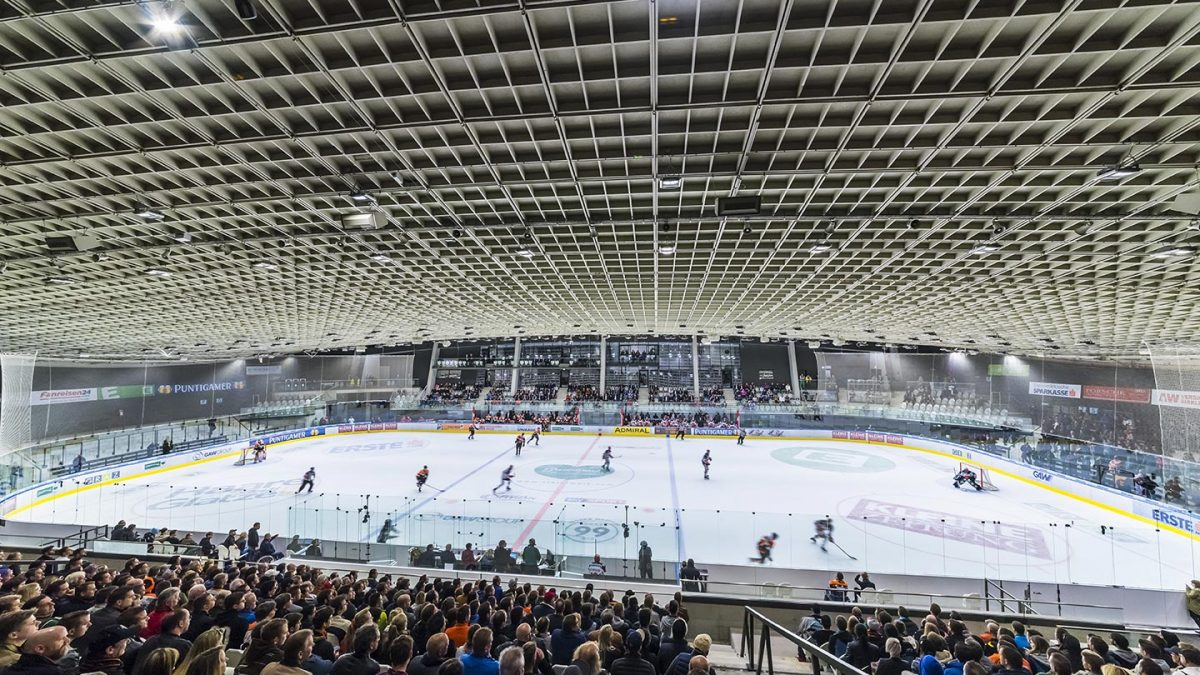 Merkur-Eisstadium during a game of the Moser-Medical Graz 99ers